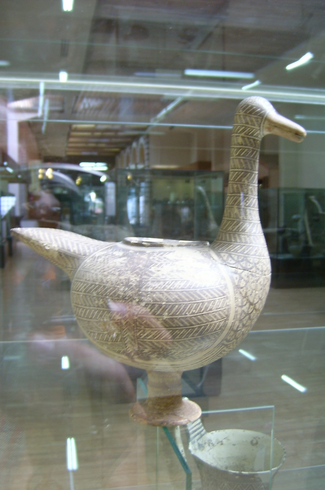 Goose-shaped pot from ancient Phrygia (Museum of Anatolian Civilizations, Ankara)